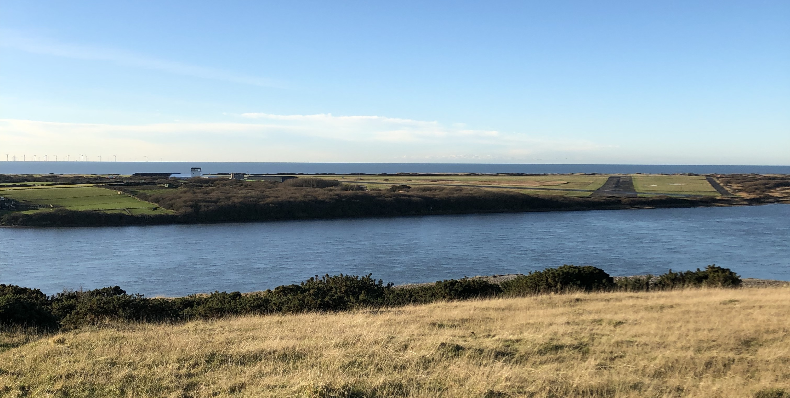 Walney Airport viewed from the Slag Bank, Barrow-in-Furness